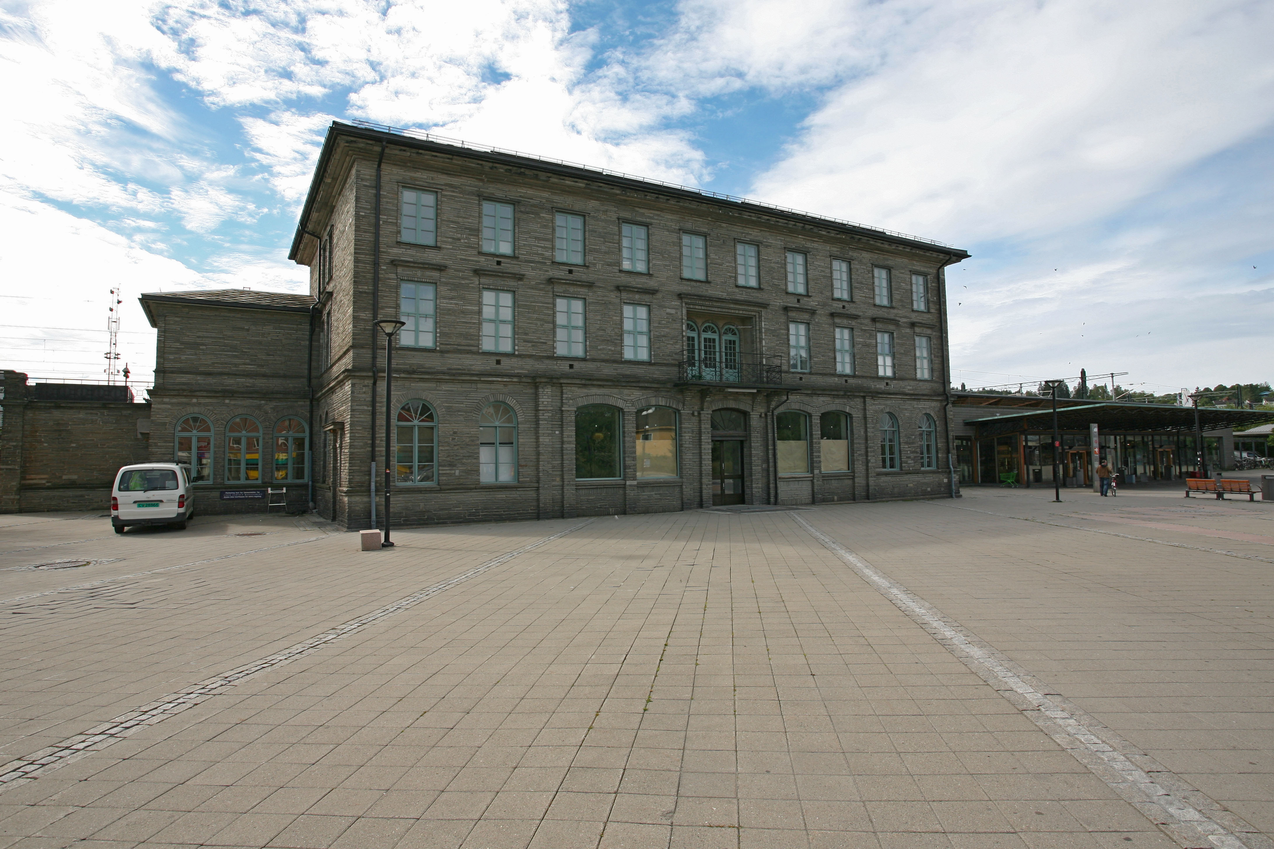 Picture of Lillestrøm Railway Station (Norway)